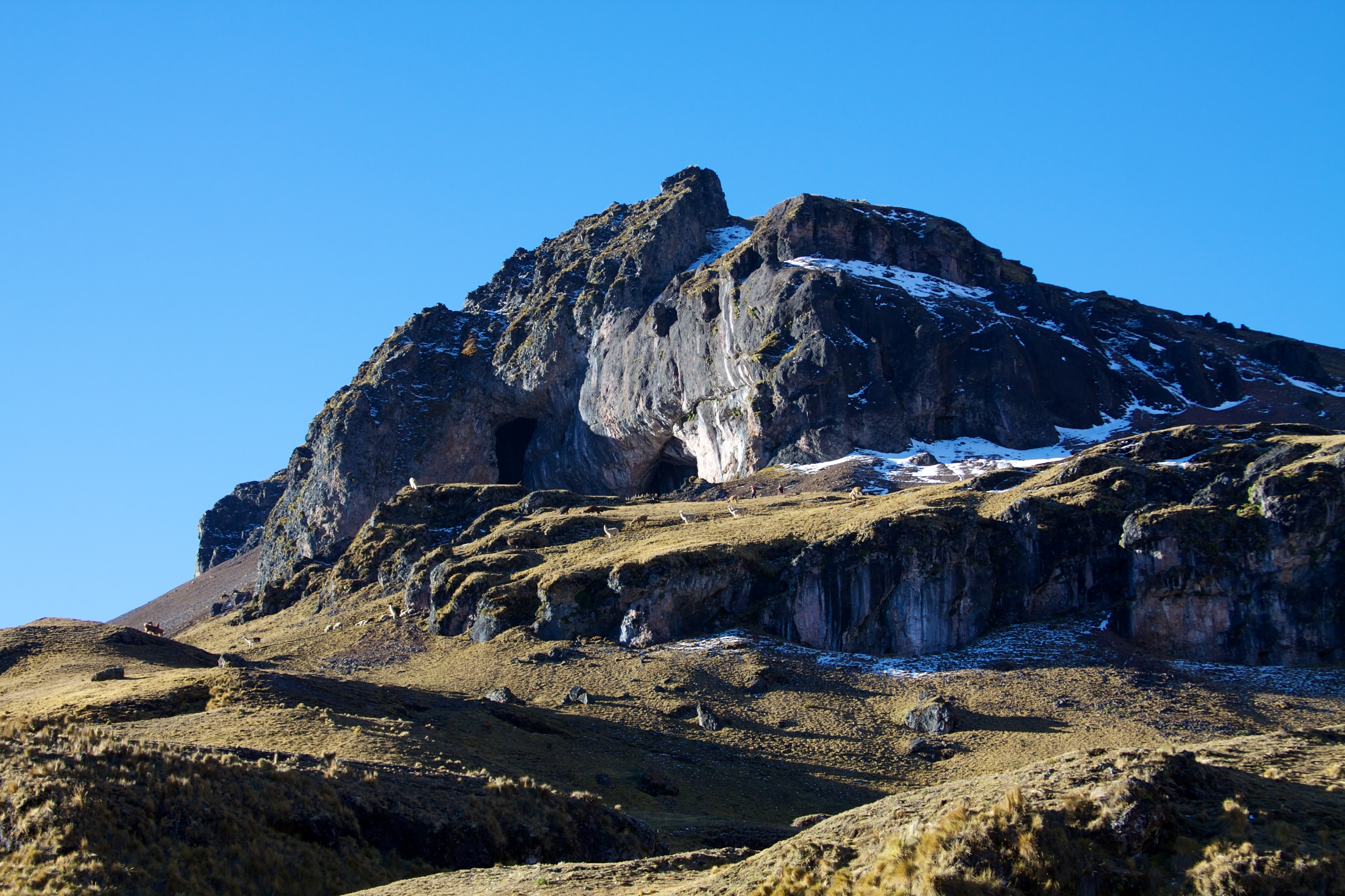 It is incredible how high the villagers would bring their herds of llamas, alpacas & sheep every day. We'd see them high above us on the top slopes as we hiked. These guys are chilling out above 4300m.